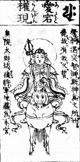 Atago Gongen as one of Japanese deities